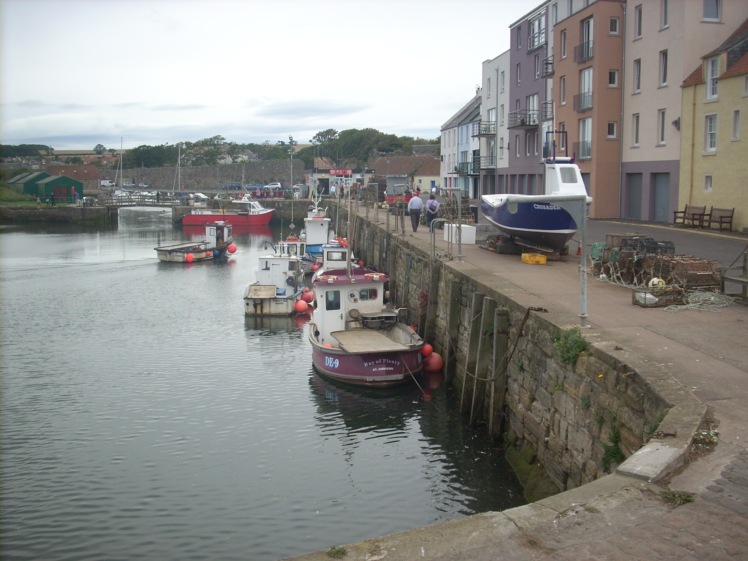 St. Andrews Harbour, Scotland.